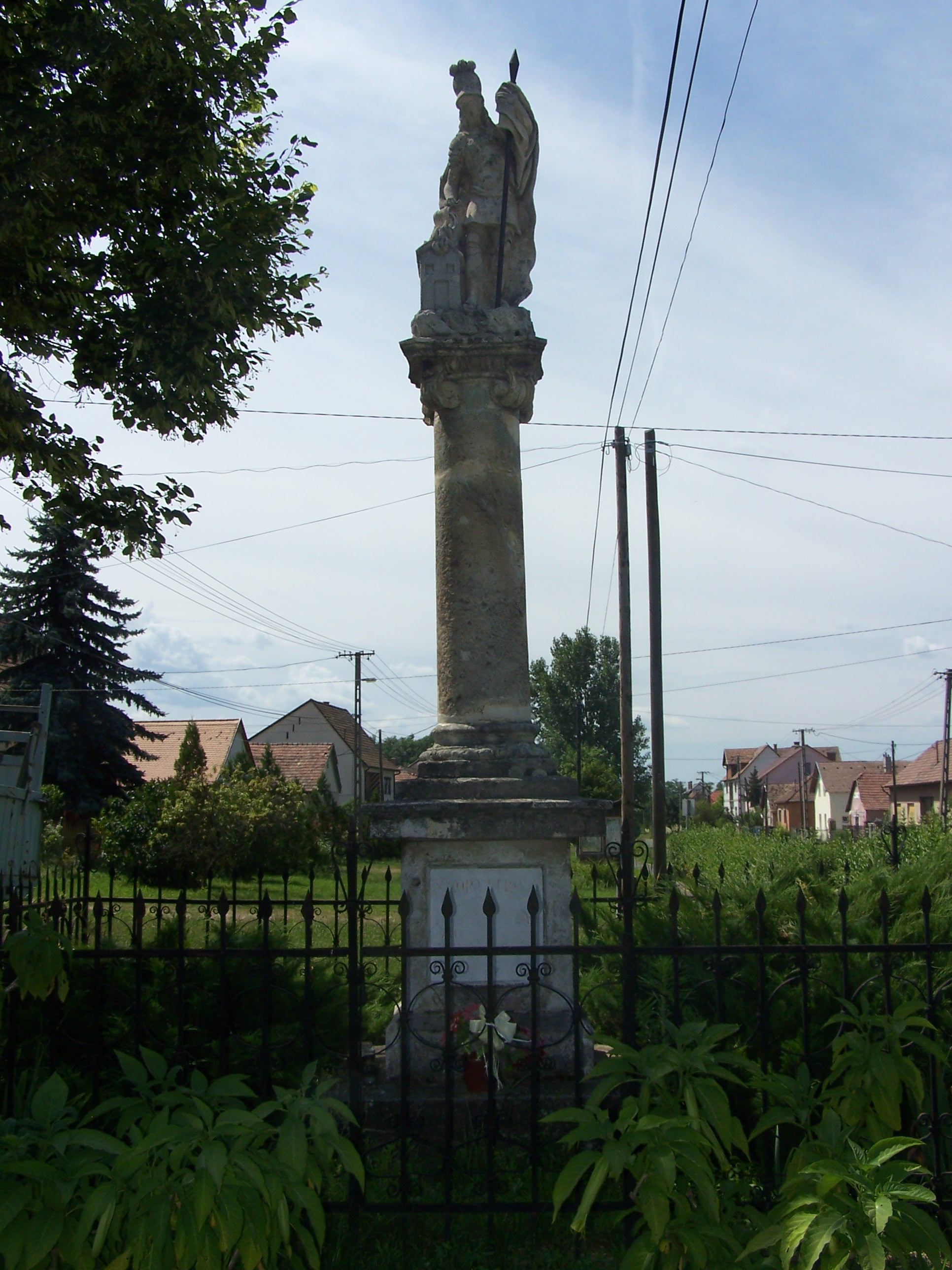 Statue of Saint Florian in Dejtár, Hungary This is a photo of a monument in Hungary. Identifier: 6569